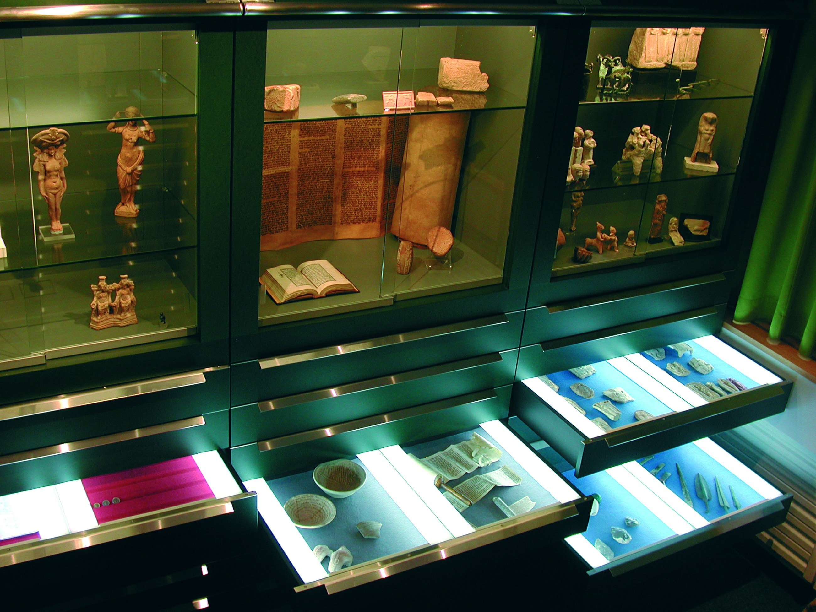 Showpiece exhibition of BIBEL+ORIENT Museum Freiburg (Switzerland)